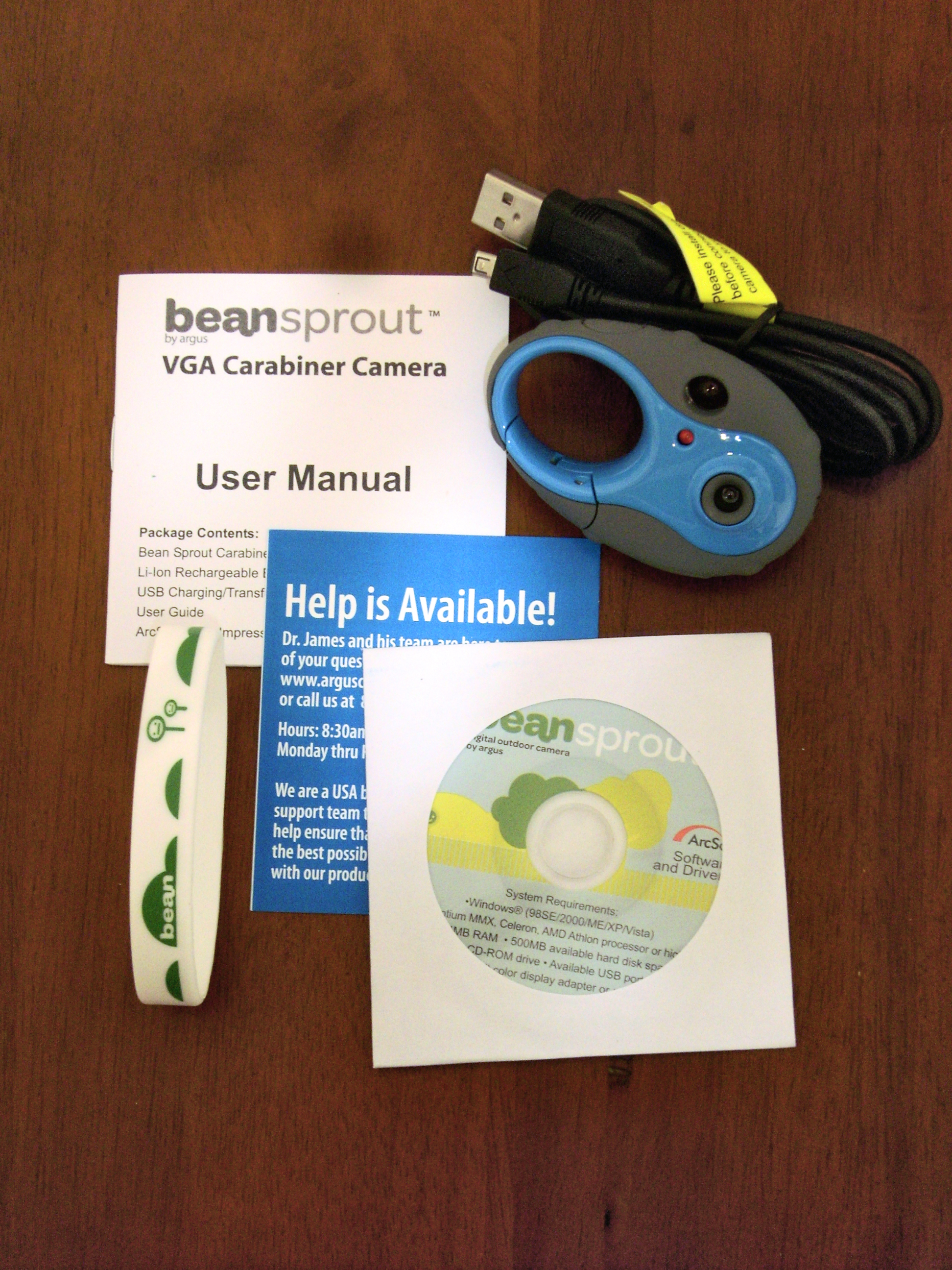 More info about this camera can be found on this set page .